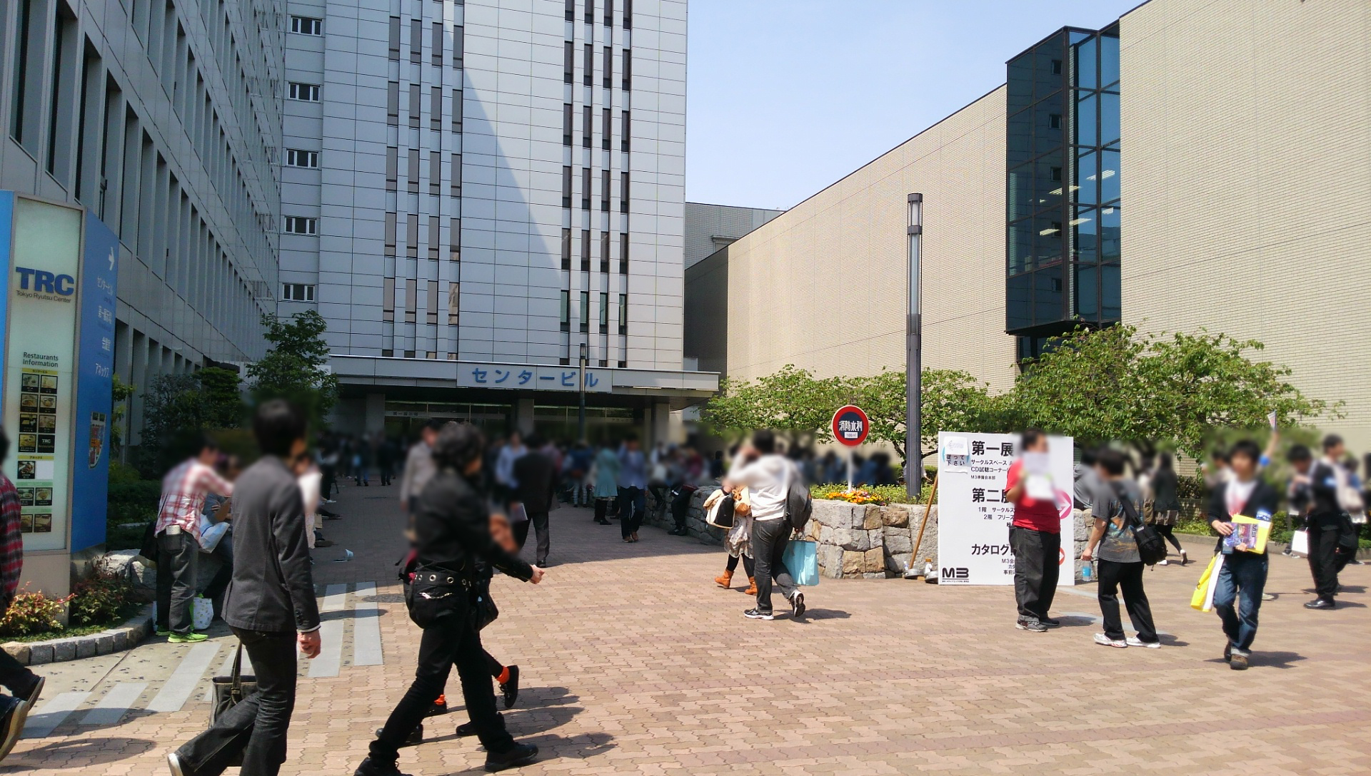 The participants in M3, a dōjin convention related to musical compositions. This photo was taken in front of the first exhibition hall in Tokyo Ryutsu Center during "M3 2018 Spring" on 29 Apr. 2013.